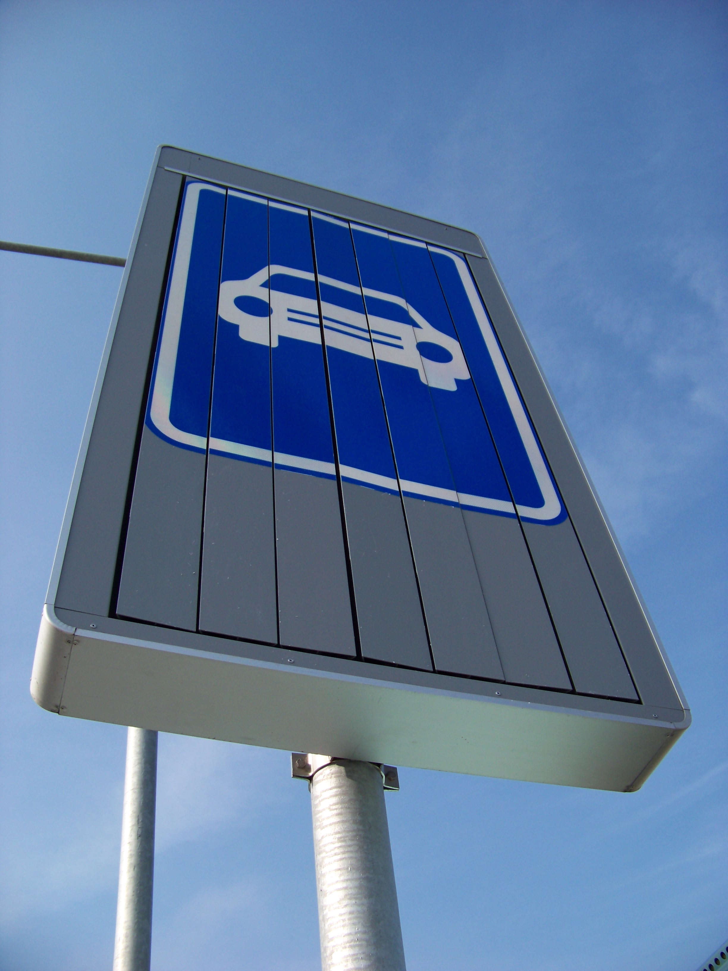 Prague-Lahovice, the Czech Republic, Lahovice Interchange of R1 and R4 expressways. A variable motorway sign.